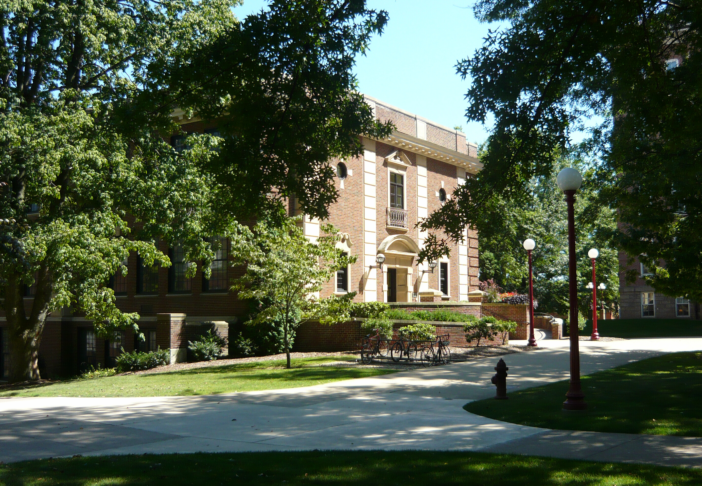 McElhaney Hall, 441 North Walk, Borough of Indiana, Pennsylvania. Built 1931. On the campus of Indiana University of Pennsylvania (IUP).